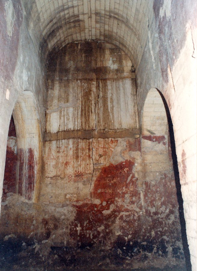 Sotterraneo Castello di Gravina